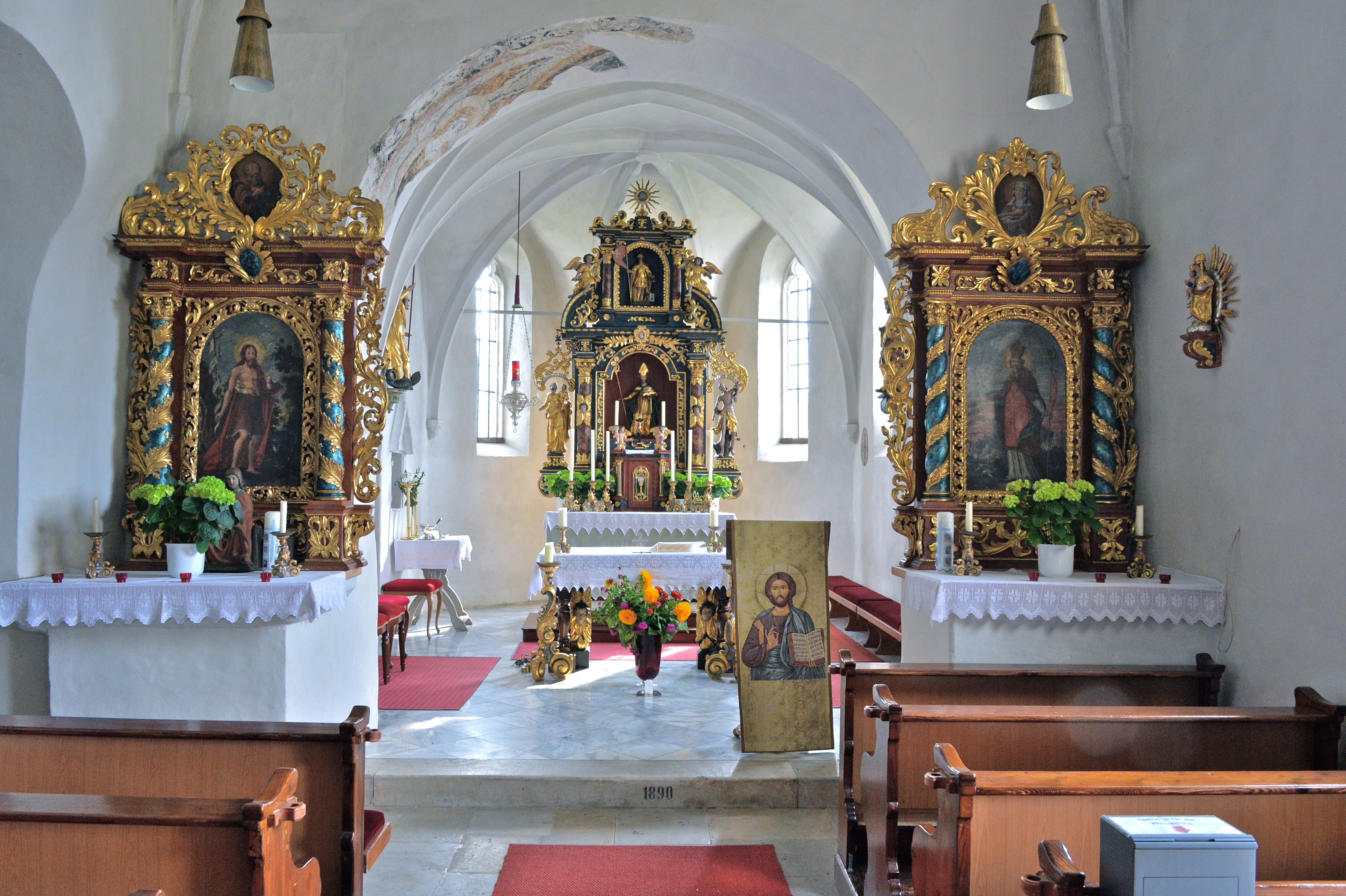 Baroque altars at the parish church Saint Martin at Prebl, municipality Wolfsberg, district Wolfsberg, Carinthia / Austria / EU